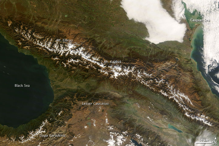 Caucasus